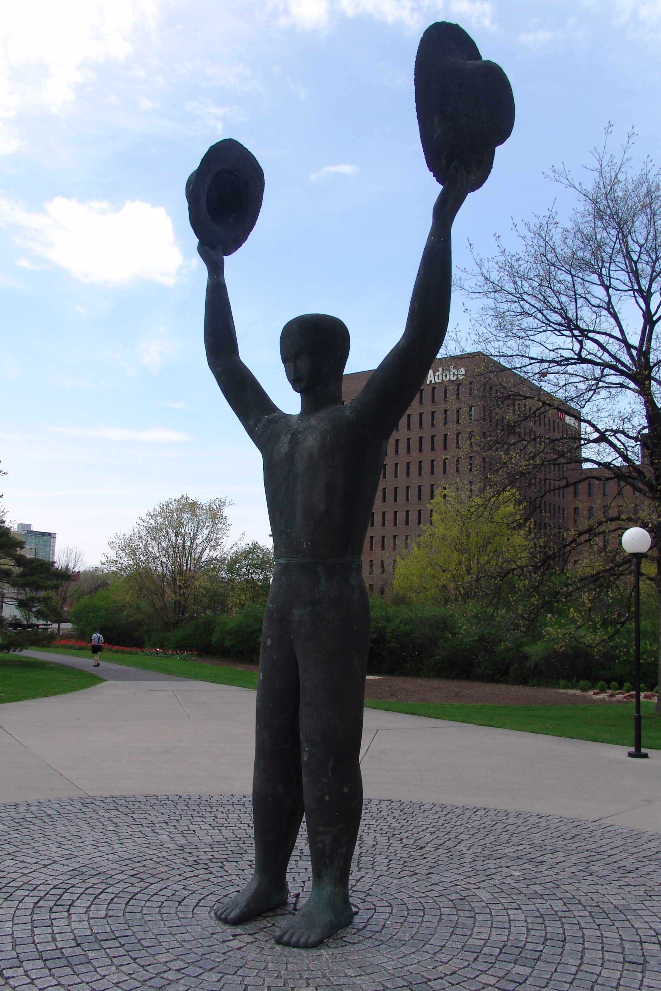 During the Second World War, Canadian soldiers played a crucial role in the liberation of the Netherlands. With the donation of this monument - an expression of joy and a celebration of freedom - the Netherlands pays lasting tribute to Canada. A statue identical to this one stands in Apeldoorn in the Netherlands. The twin monuments symbolically link Canada and the Netherlands; though separated by an ocean, the two countries will forever be close friends. Her Royal Highness Princess Margriet of the Netherlands unveiled the monument in Ottawa on May 11, 2002, and the other in Apeldoorn on May 2, 2000. Artist: Henk Visch